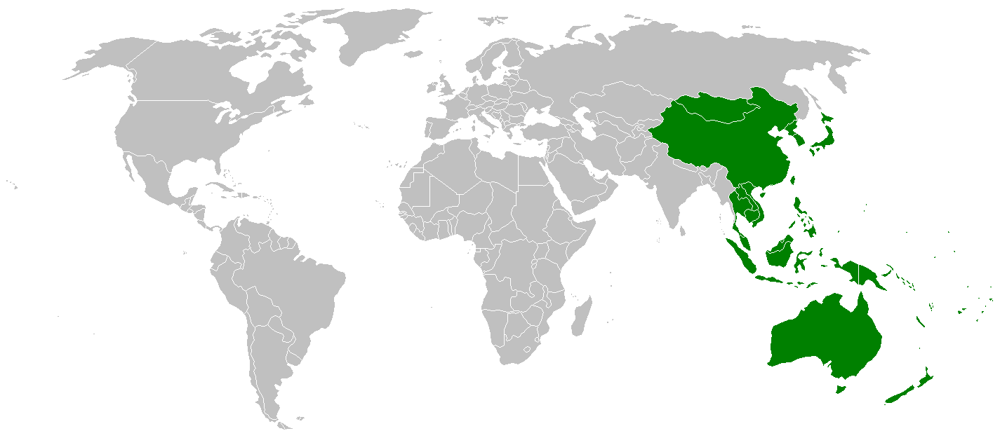 Map showing countries within the Asia-Pacific region. The definition of the region is fairly ambiguous.